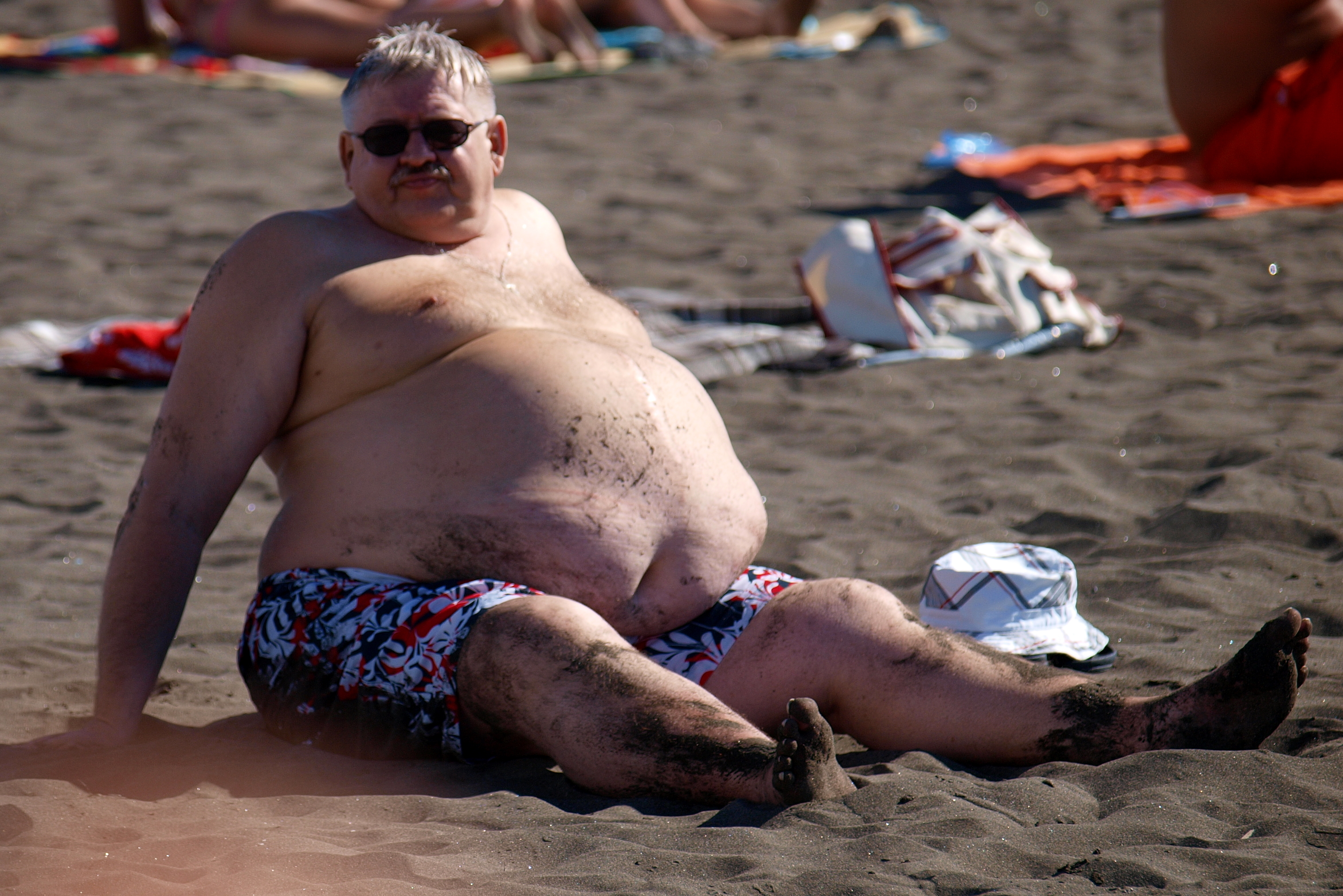 Male abdominal obesity.